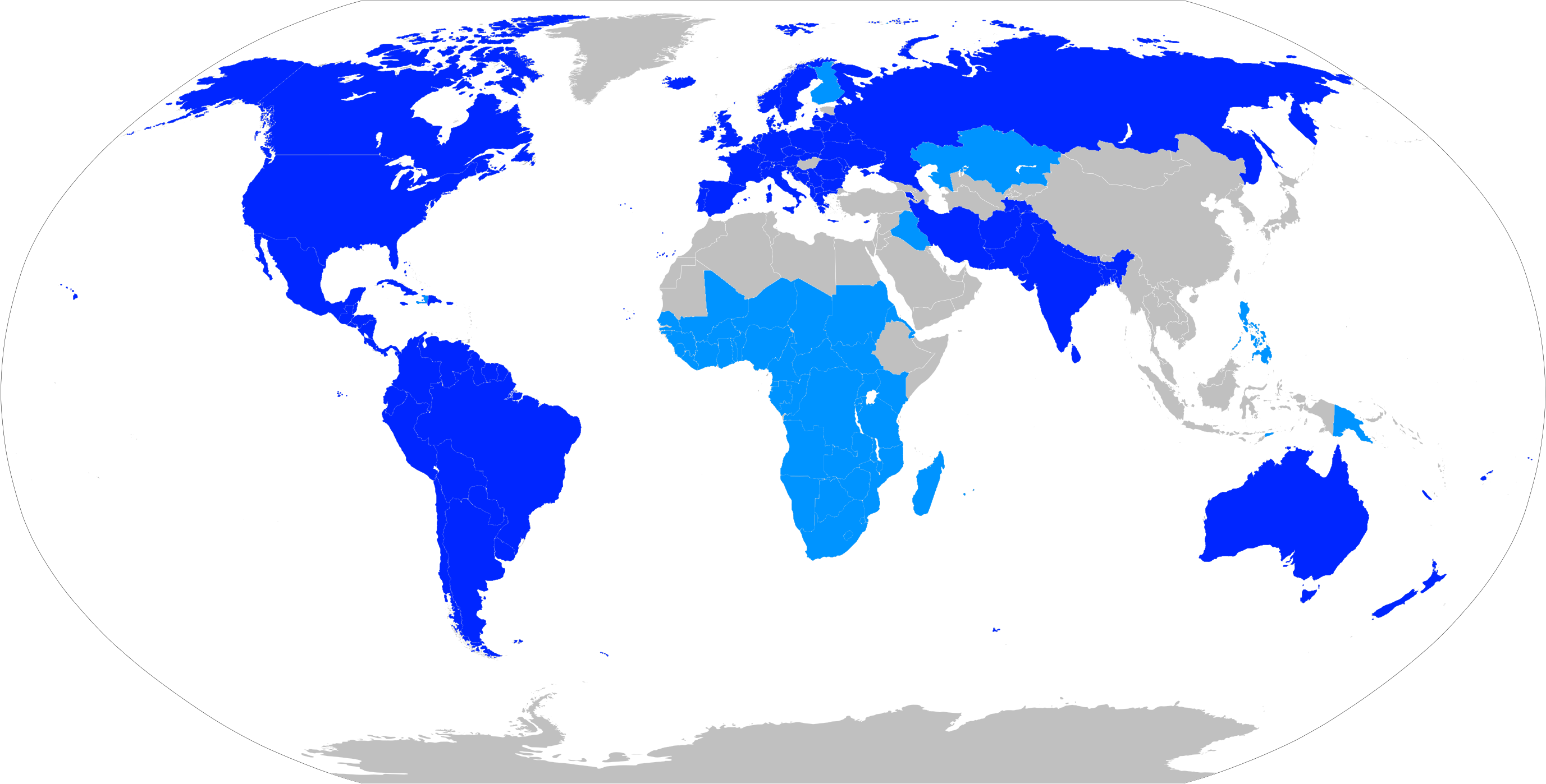 Distribution of the Indo-European language family. Countries where Indo-European language family is majority native Countries where Indo-European language family is official but not majority native Countries where Indo-European language family is not official